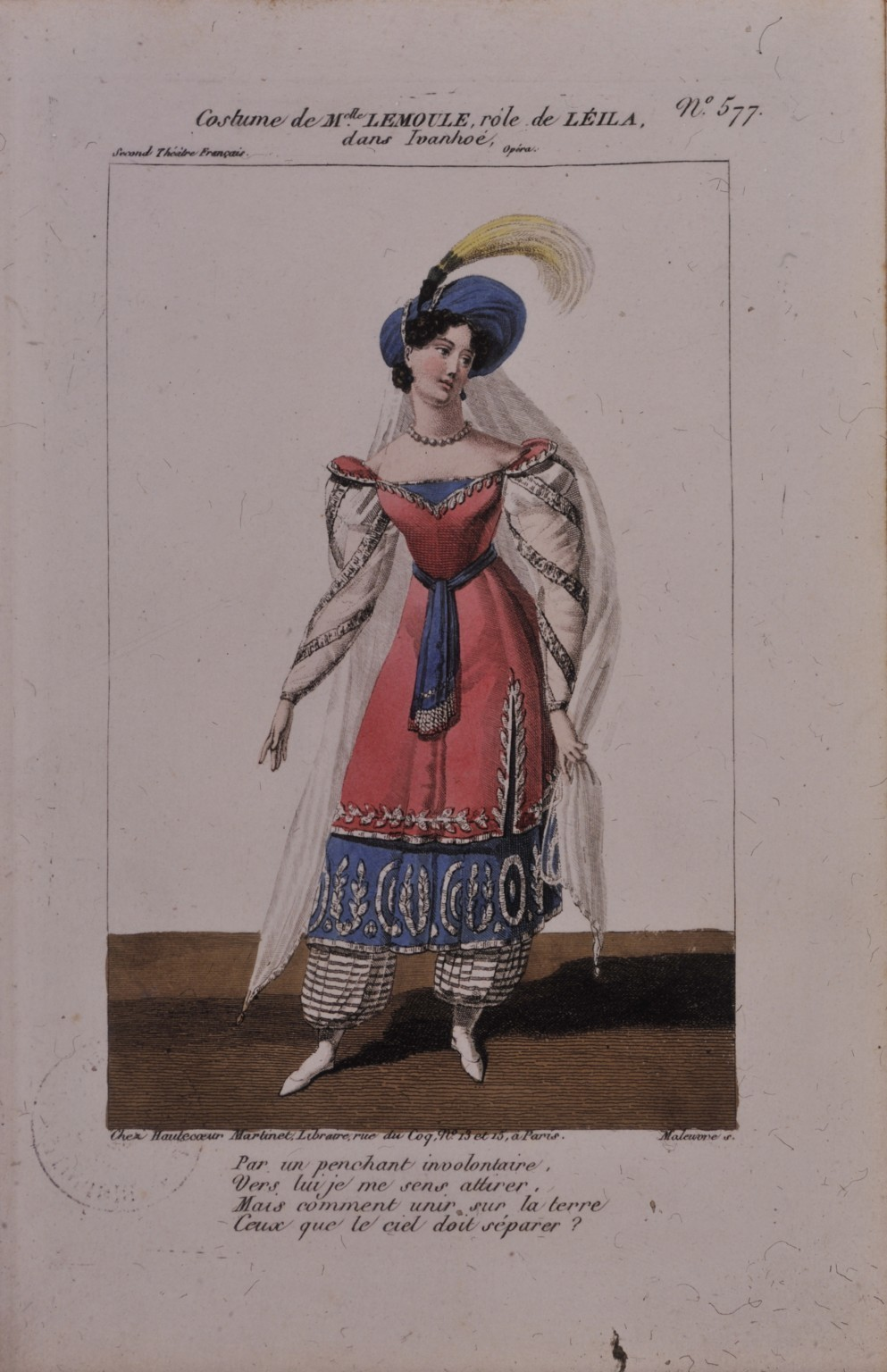 Rossini - Ivanhoé - Paris 1826 - costume de Mademoiselle Lemoule (Léila) - gravé par Maleuvre Paris : Odéon-Théâtre de l'Europe, 15-09-1826 1 est. : eau-forte, en coul. ; 23 x 14,5 cm. Auteur : Maleuvre (Paris). Atelier. Graveur Éditeur : Hautecoeur Martinet (Paris), 1826